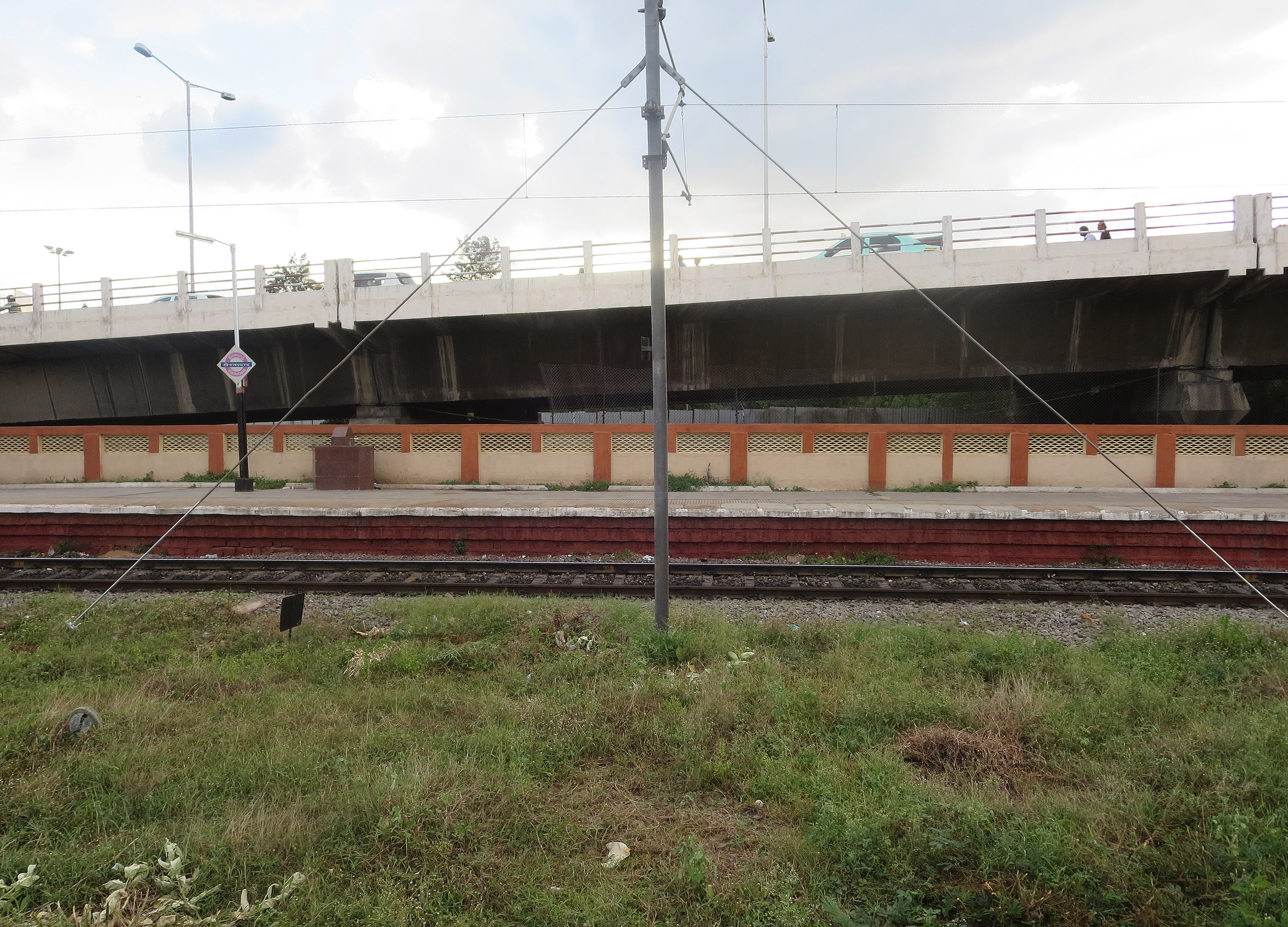 Khairatabad railway station with Khairtabad flyover in the background